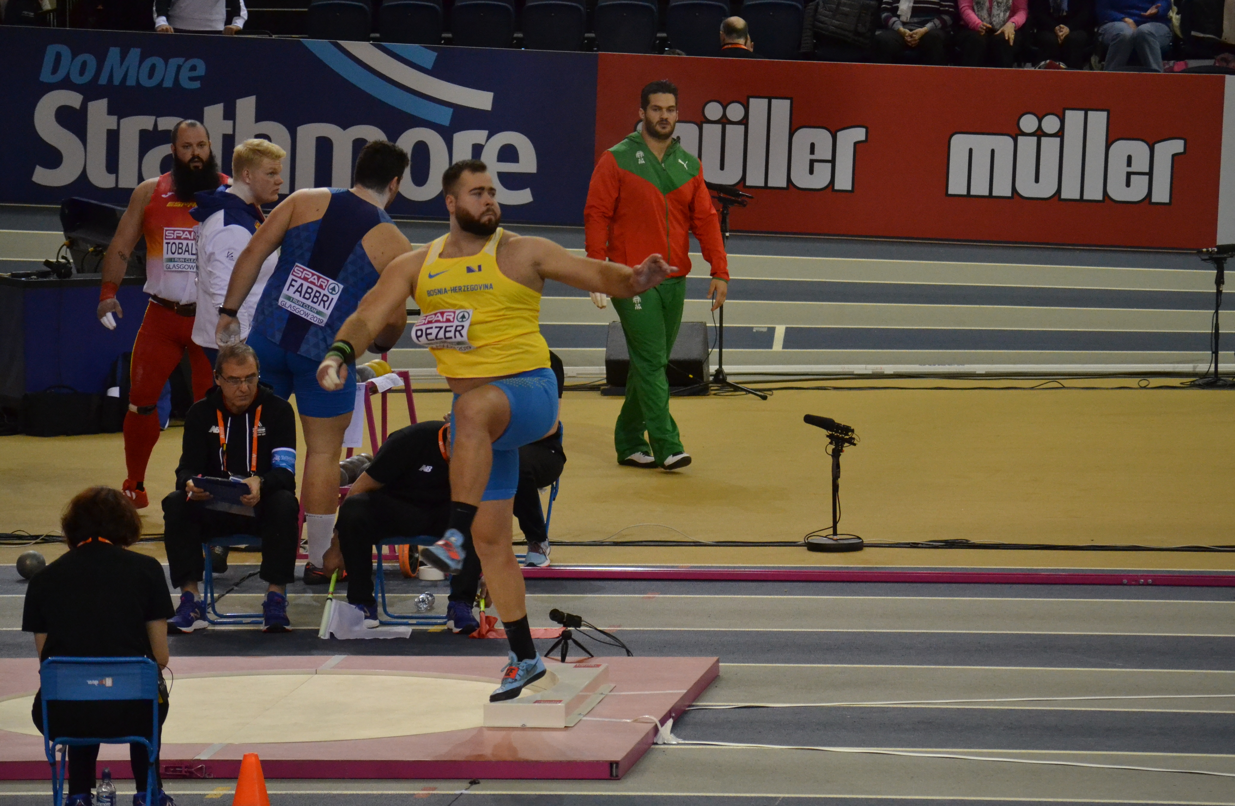 Mens Shot Put